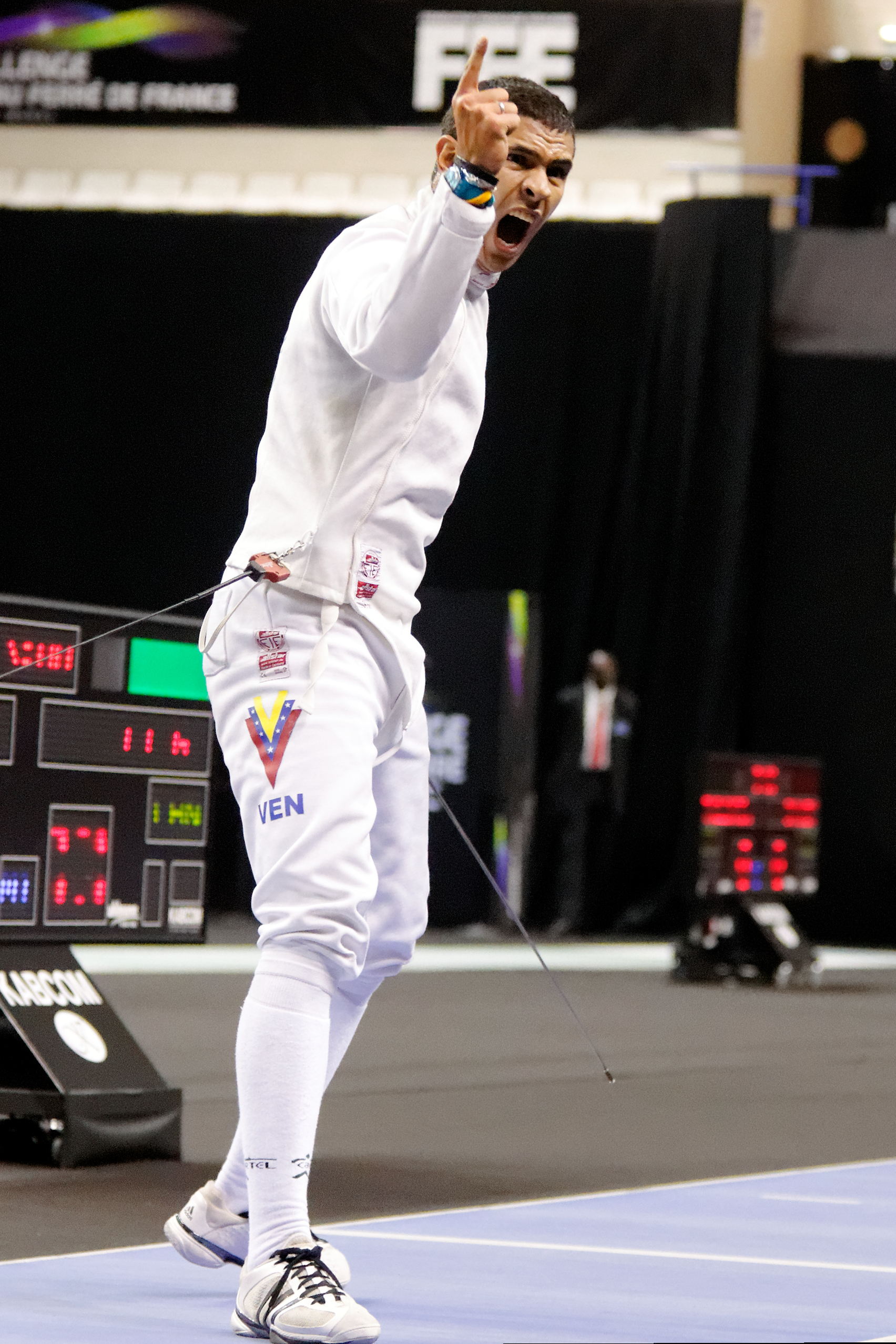 1/16 finals of the Challenge Réseau Ferré de France–Trophée Monal 2012: Rubén Limardo's cry of triumph after his victory over Li Guojie.